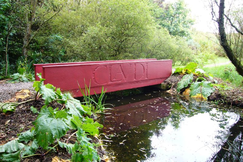 Pink concrete bridge - sculpture/object by Ian Hamilton Finlay at Little Sparta in Scotland/U.K.